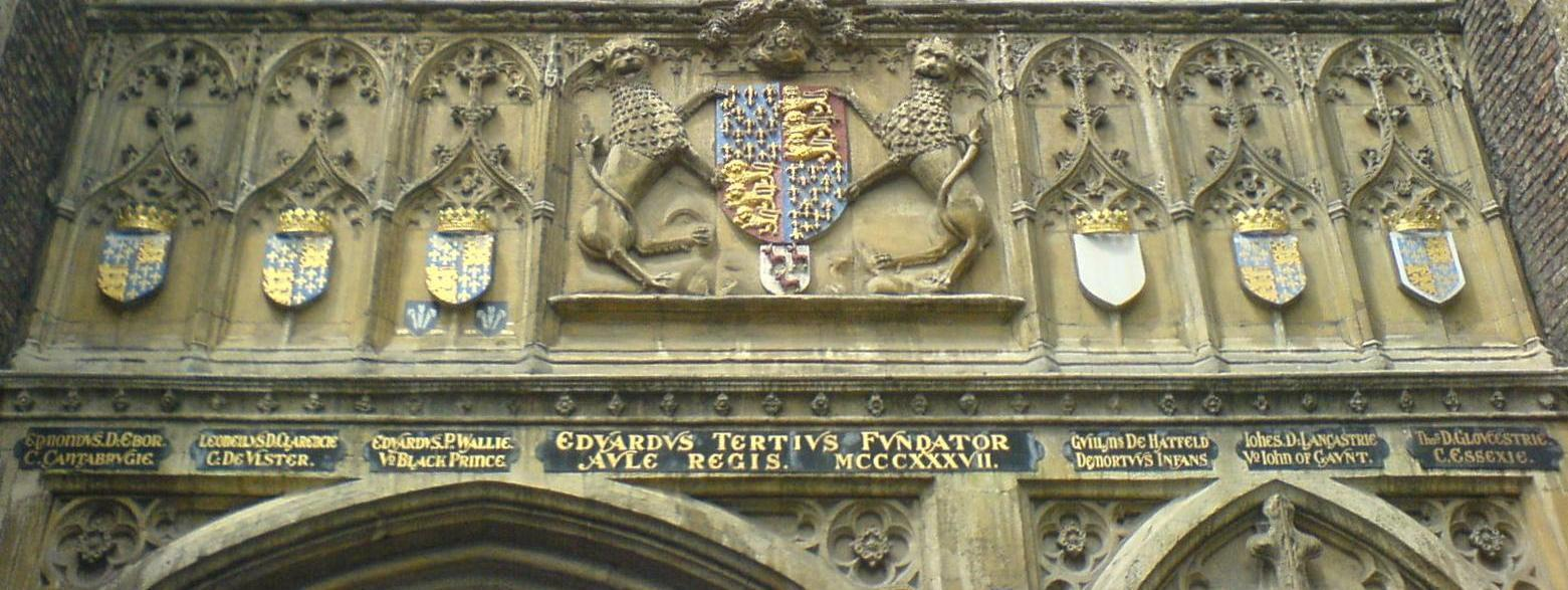 Trinity College derives from King's Hall, refounded by Edward III in 1337 after his father’s original foundation in 1317. The arms of Edward and his sons who survived to maturity (plus William of Hatfield) can still be seen on the Great Gate of the college. The coats of arms with Latin inscriptions below are as follows (left to right): Edmondus D(ux) Ebor(acis), C(omes) Cantabrugie (Edmund of Langley, 1st Duke of York, Earl of Cambridge) Leoneilus D(ux) Clarencie, C(omes) de Ulster (Lionel of Antwerp, 1st Duke of Clarence, Earl of Ulster) Eduardus P(rinceps) Wallie, vo(catus) Black Prince (Edward Prince of Wales, called the Black Prince) Eduardus Tertius Fundator Aule Regis. MCCCXXXVII (King Edward III founder of King’s Hall. 1337) Guil(e)m(u)s De Hatfeld, Demortuus Infans (William of Hatfield, Died an infant [hence no arms]) Joh(ann)es D(ux) Lancastrie, vo(catus) John of Gaunt. (John of Gaunt, 1st Duke of Lancaster, Called John of Gaunt) Tho(ma)s Dux Gloucestrie, C(omes) Essexie (Thomas of Woodstock, 1st Duke of Gloucester, Earl of Essex)